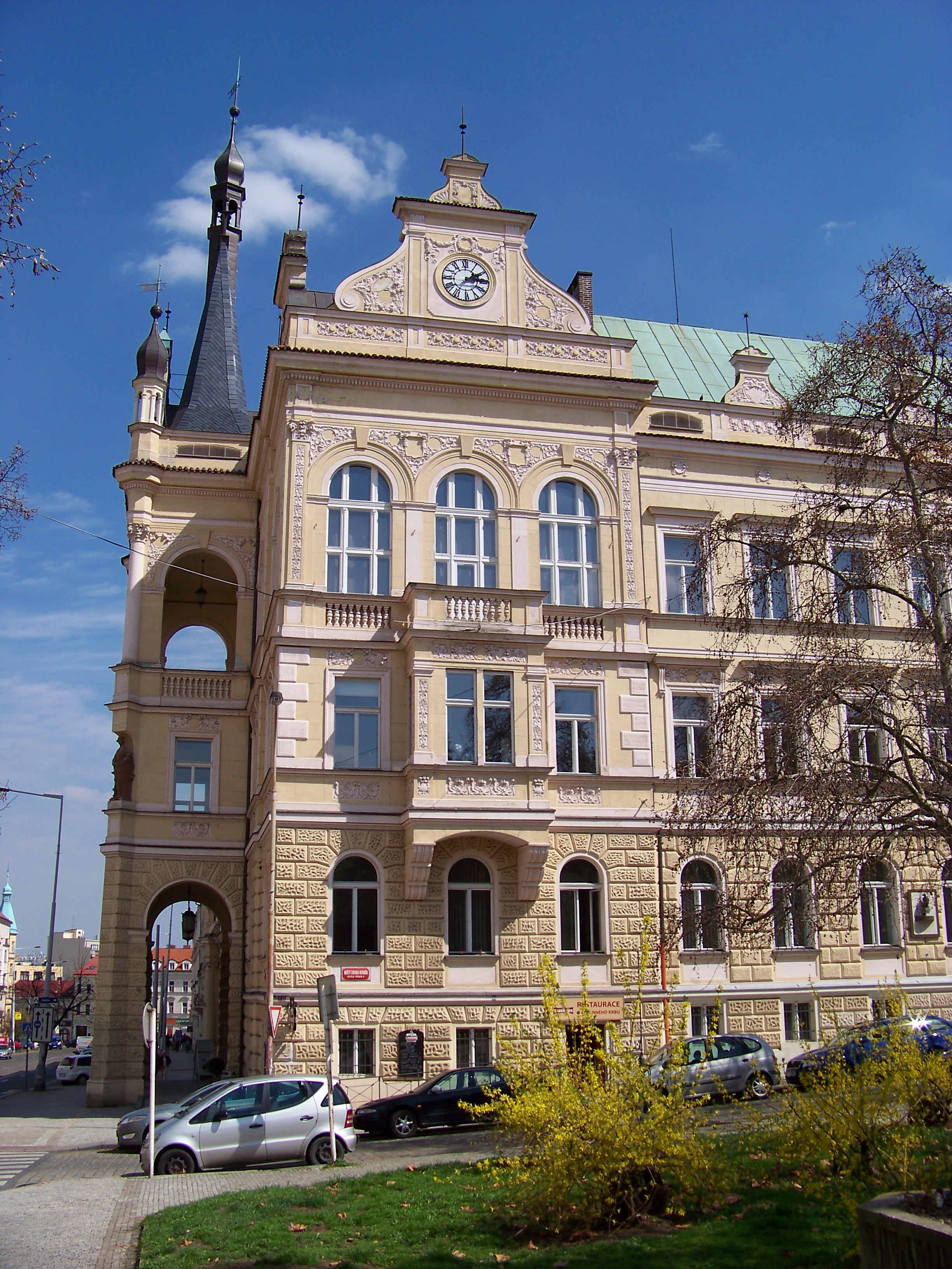 Prague-Nusle, the Czech Republic. Táborská 500/30, náměstí Generála Kutlvašra 500/1, a town hall.